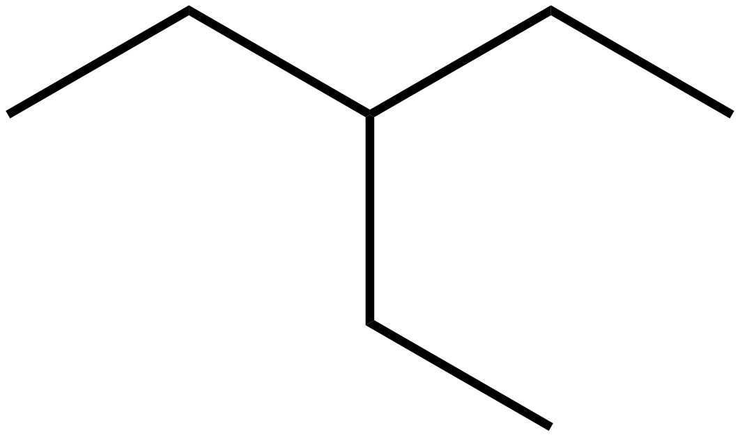 chemical structure of 3-ethylpentane